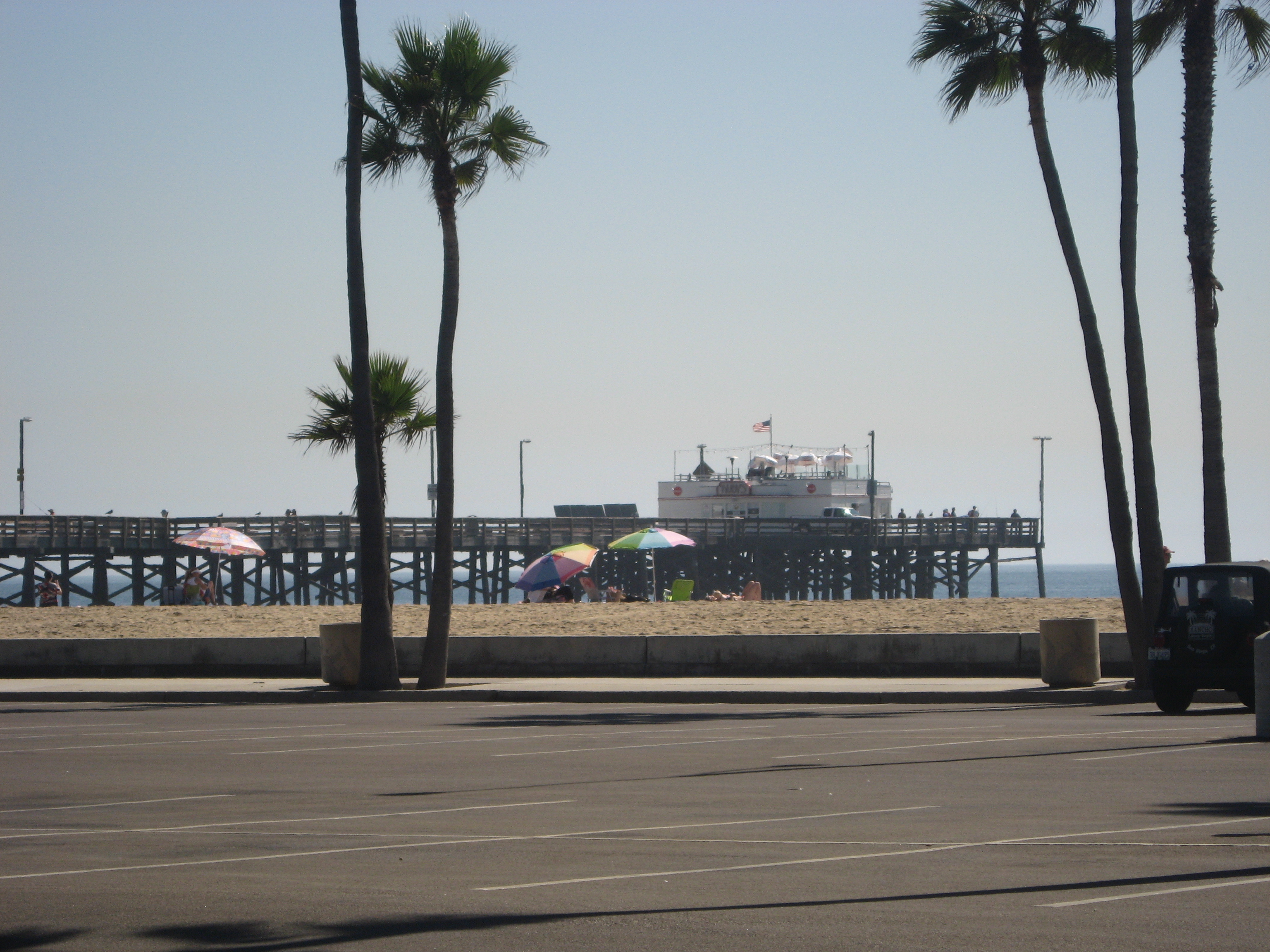 Taken and submitted by Alienburrito (talk) 19:30, 11 October 2008 (UTC)alienburrito